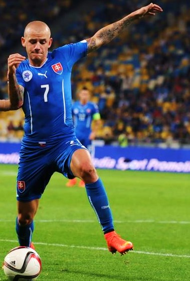 Vladimír Weis